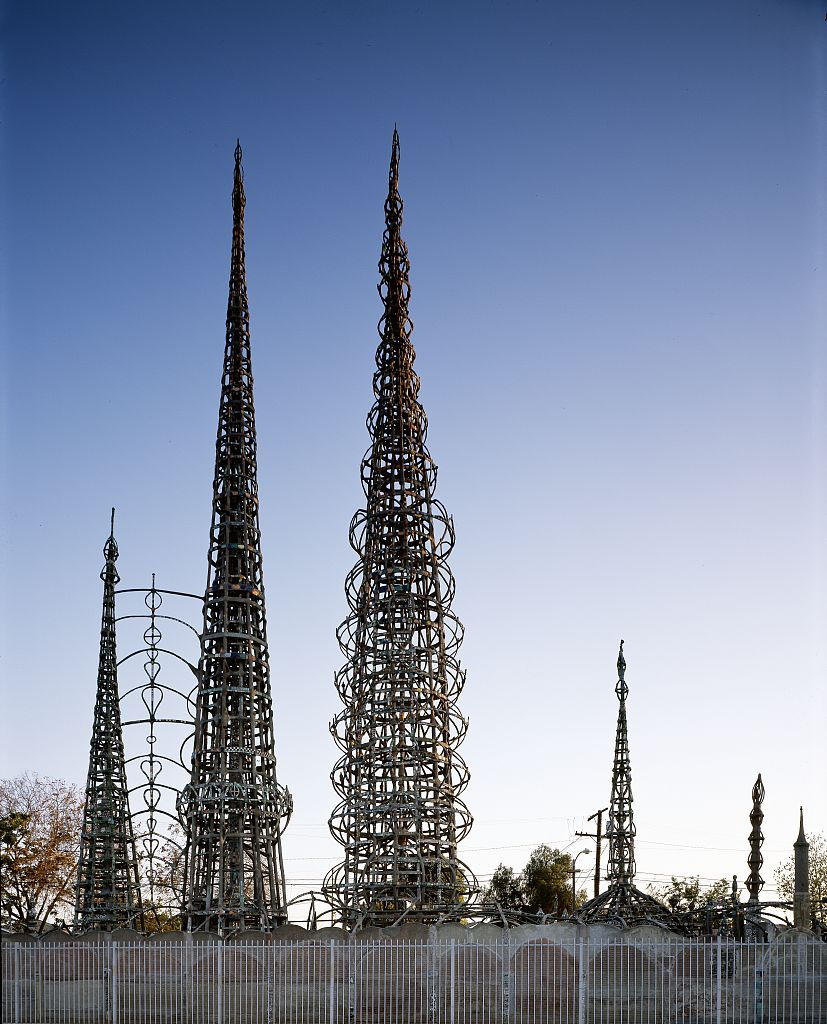 Watts Towers